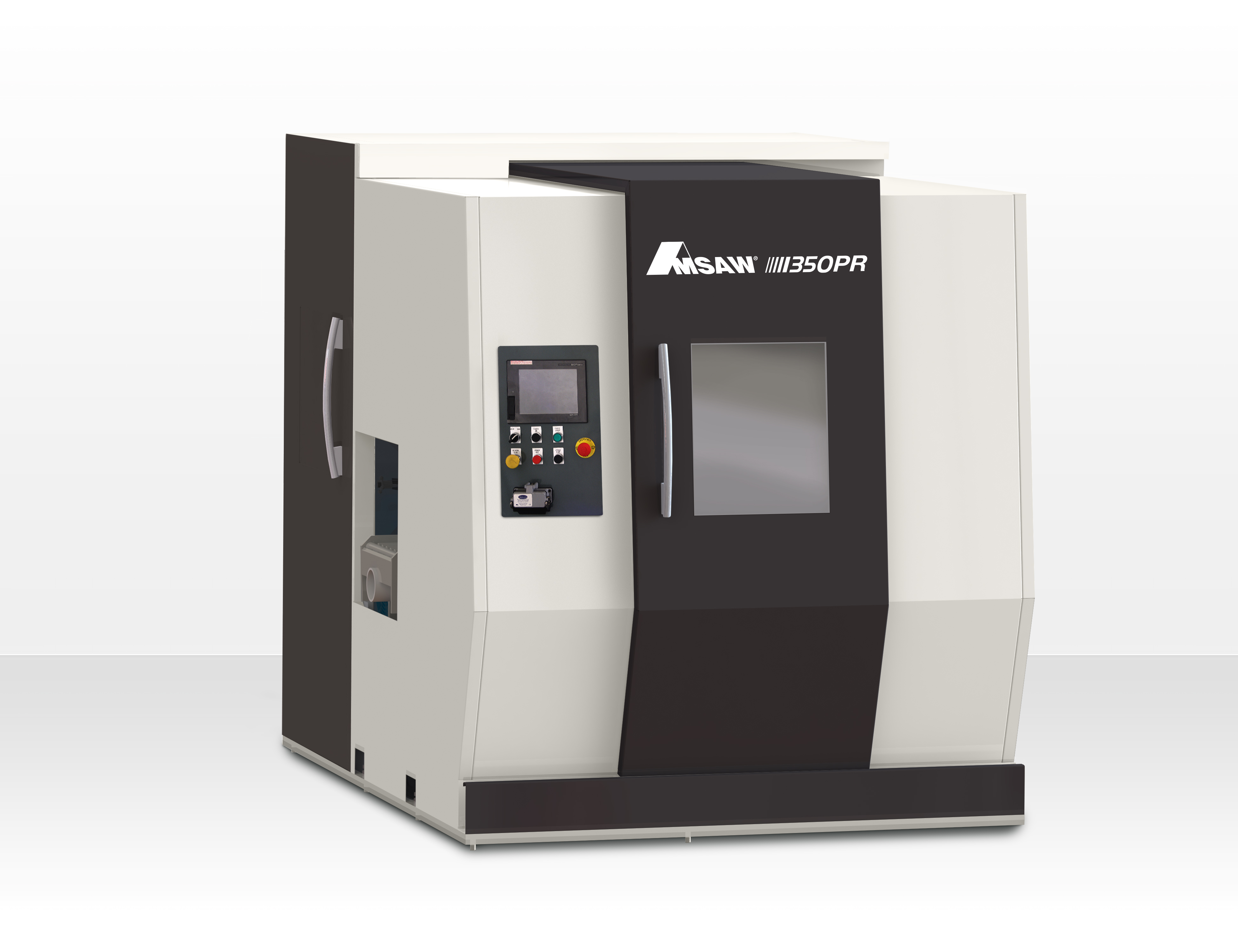 automatic carbide bar cutoff saw